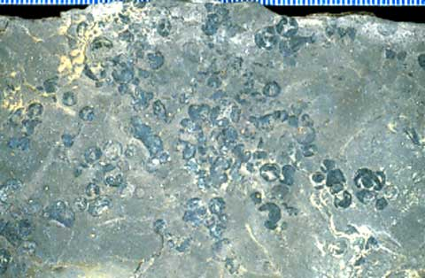 Compression fossil of Protosalvinia furcata from the Devonian-age New Albany Shale. Specimen collected in Kentucky and housed in the UCMP collection.